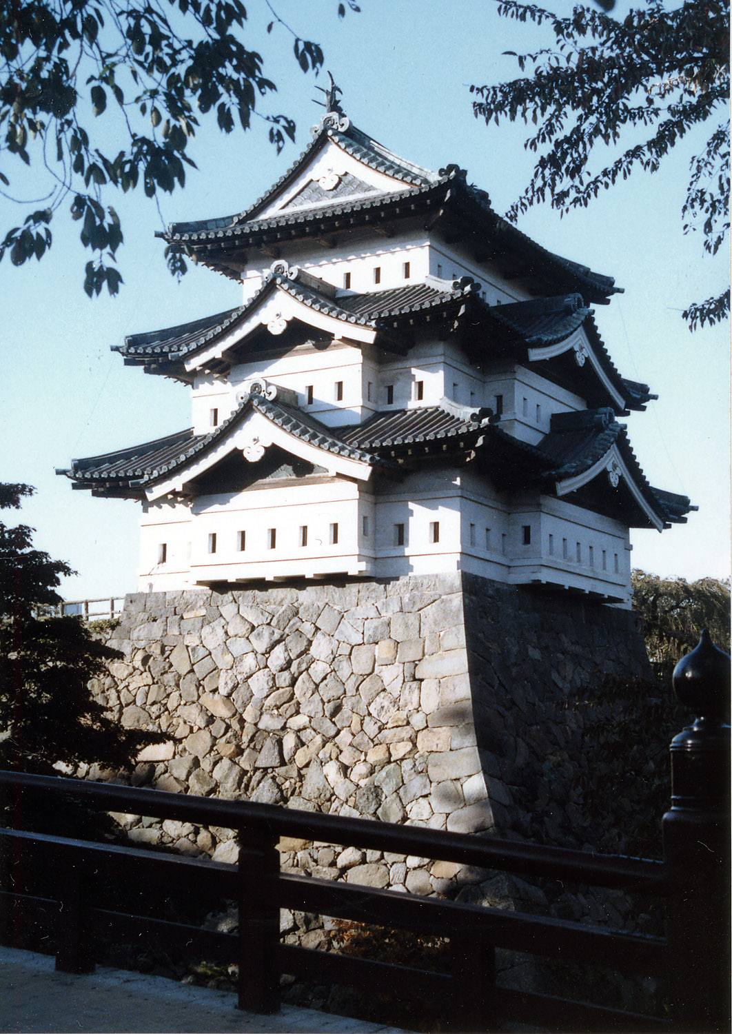 Hirosaki Castle, Hirosaki, Aomori Prefecture, Japan in 1987. I took this photo and contribute my rights in the file to the public domain; people and organizations retain rights to images in it.